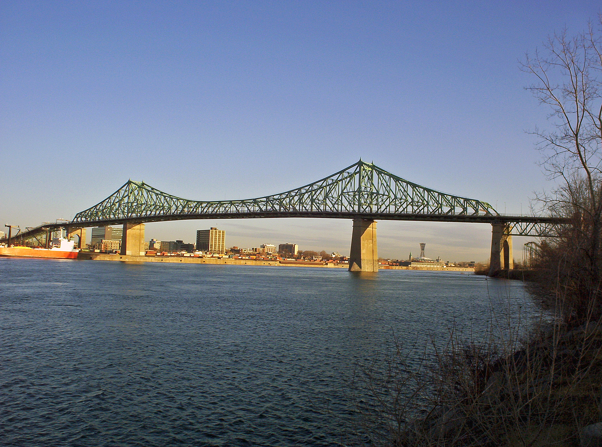 Summary: View on Jacques-Cartier bridge in Montreal, Quebec Author: Colocho Date: April 10th, 2006